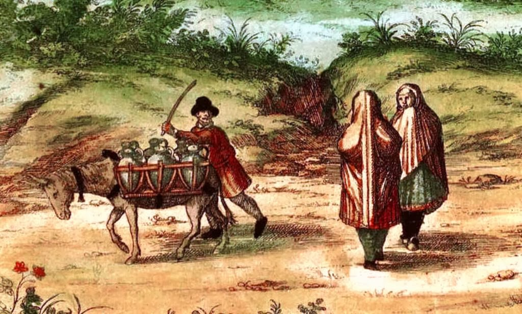 Georg Braun (also Brunus, Bruin; 1541 – 10 March 1622) was a topo-geographer. From 1572 to 1617 he edited the "Civitates orbis terrarum". Inside this: Dos moriscas y un aguador de Granada.